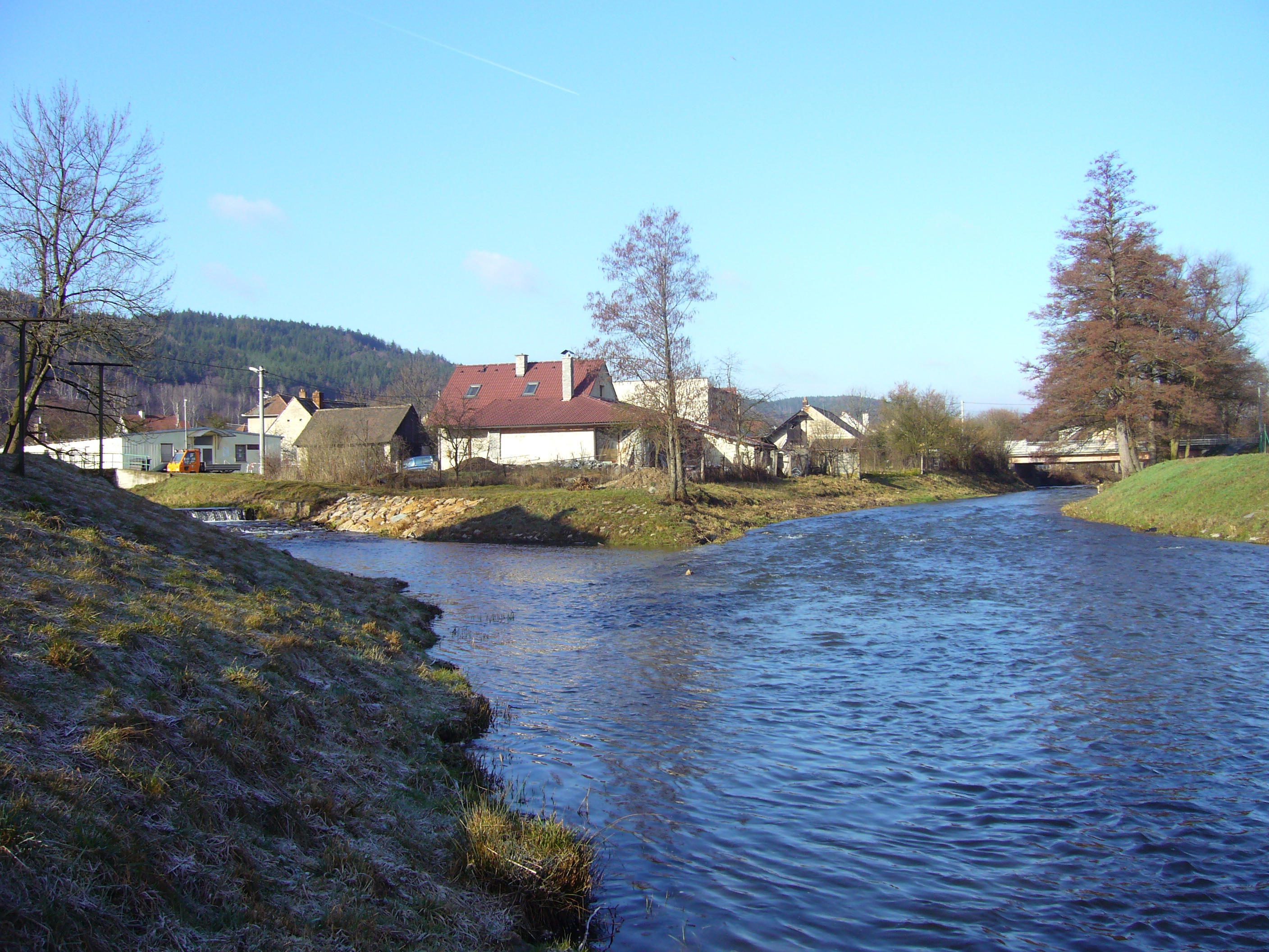 Confluence of Libochovka (left) and Bobruvka in Dolní Loučky vilage